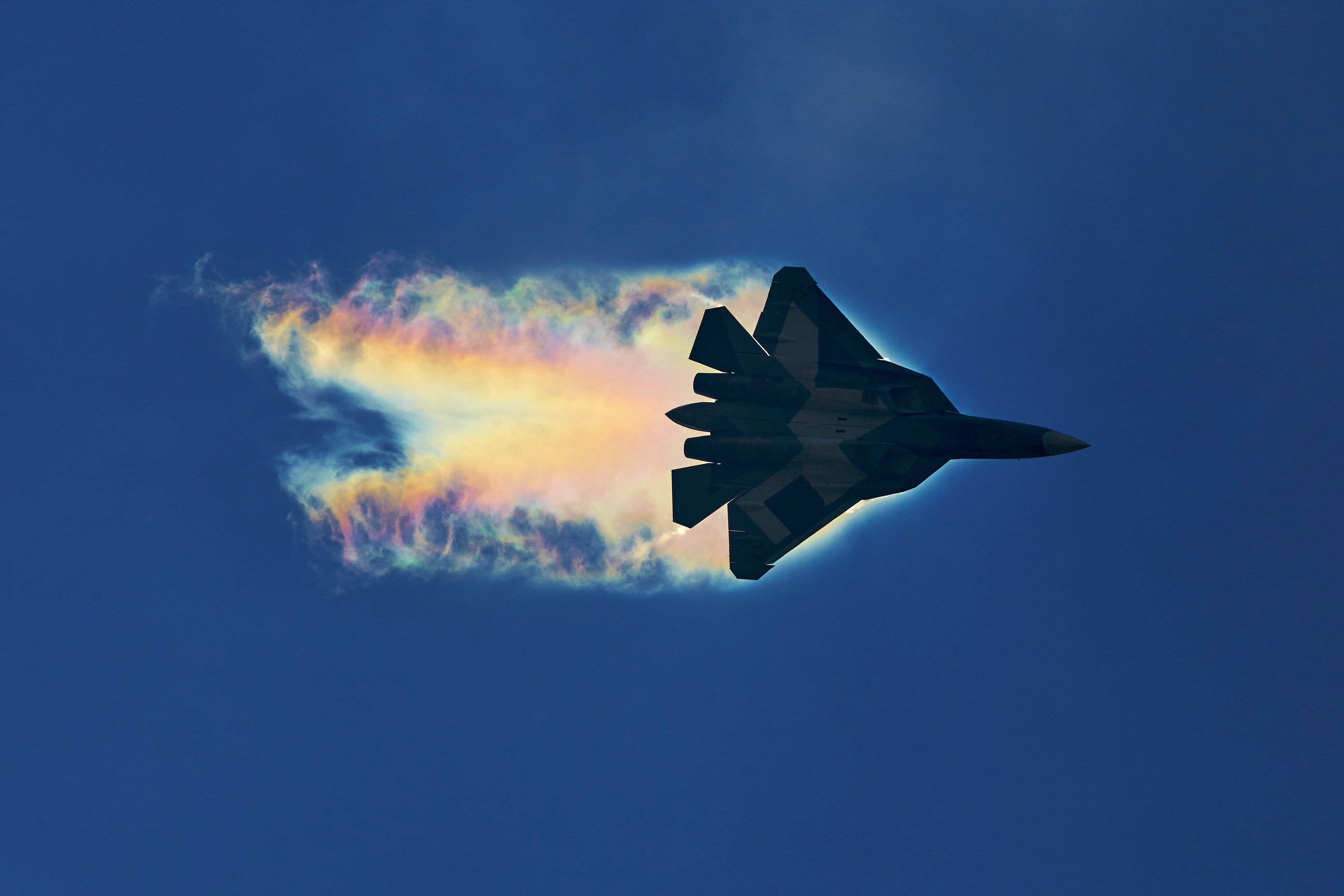 PAK FA vapor during a High-G maneuver at MAKS-2015